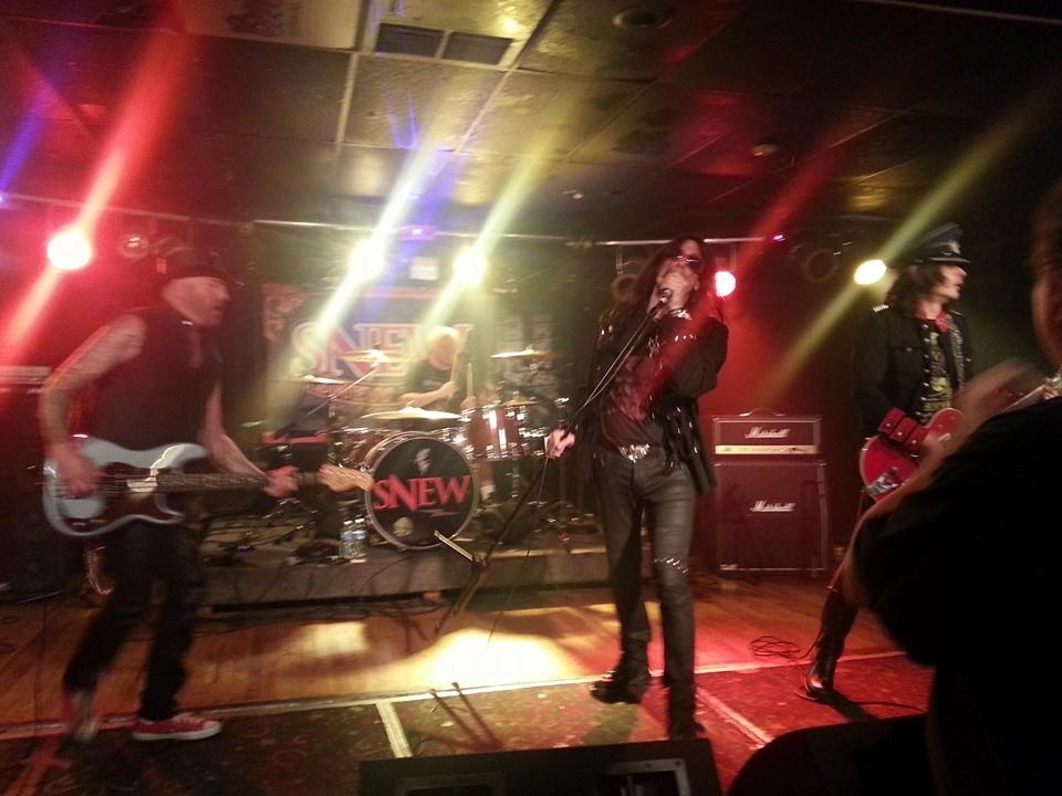 A live shot of SNEW at Eck’s Saloon in Denver Colorado May 31, 2014.